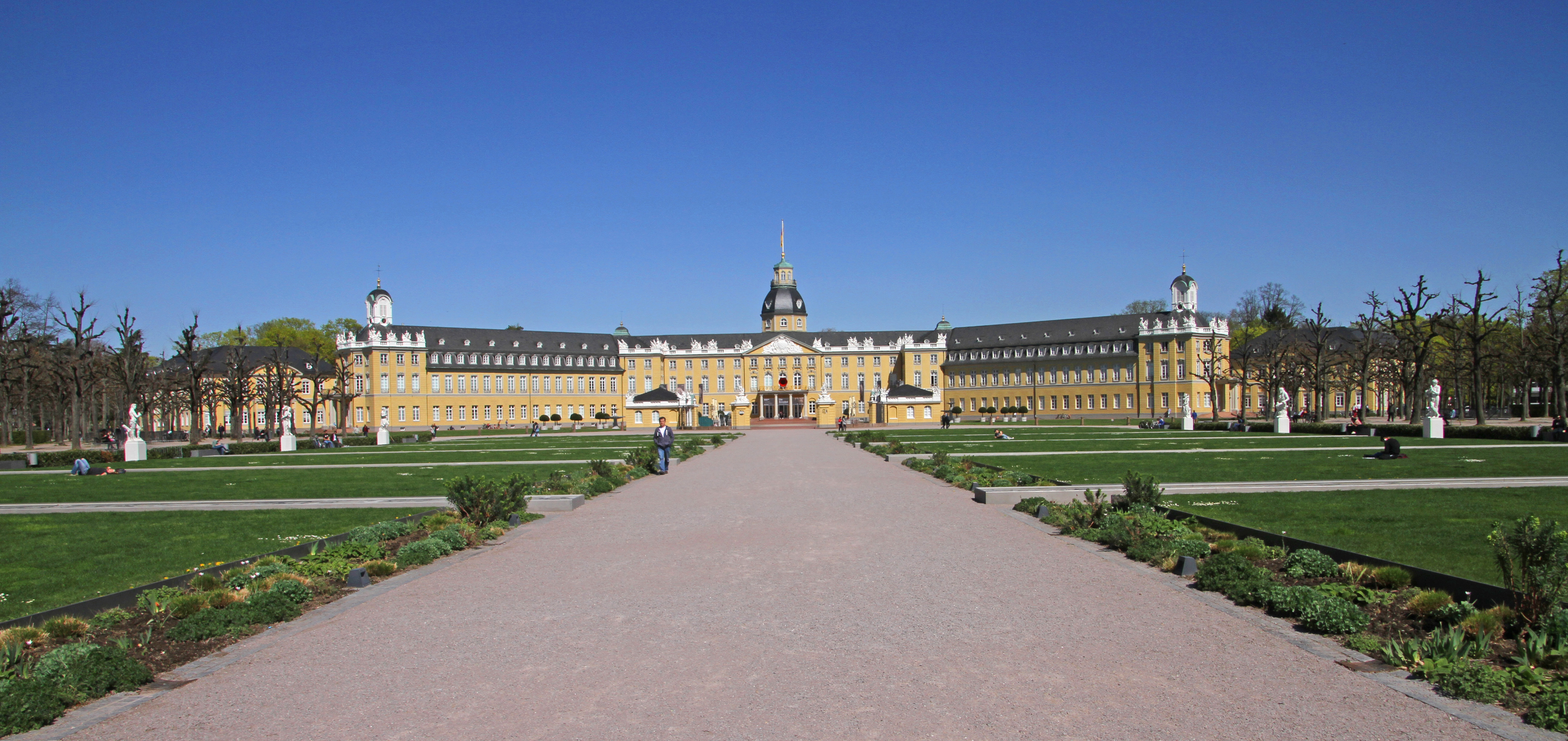 Karlsruhe Palace